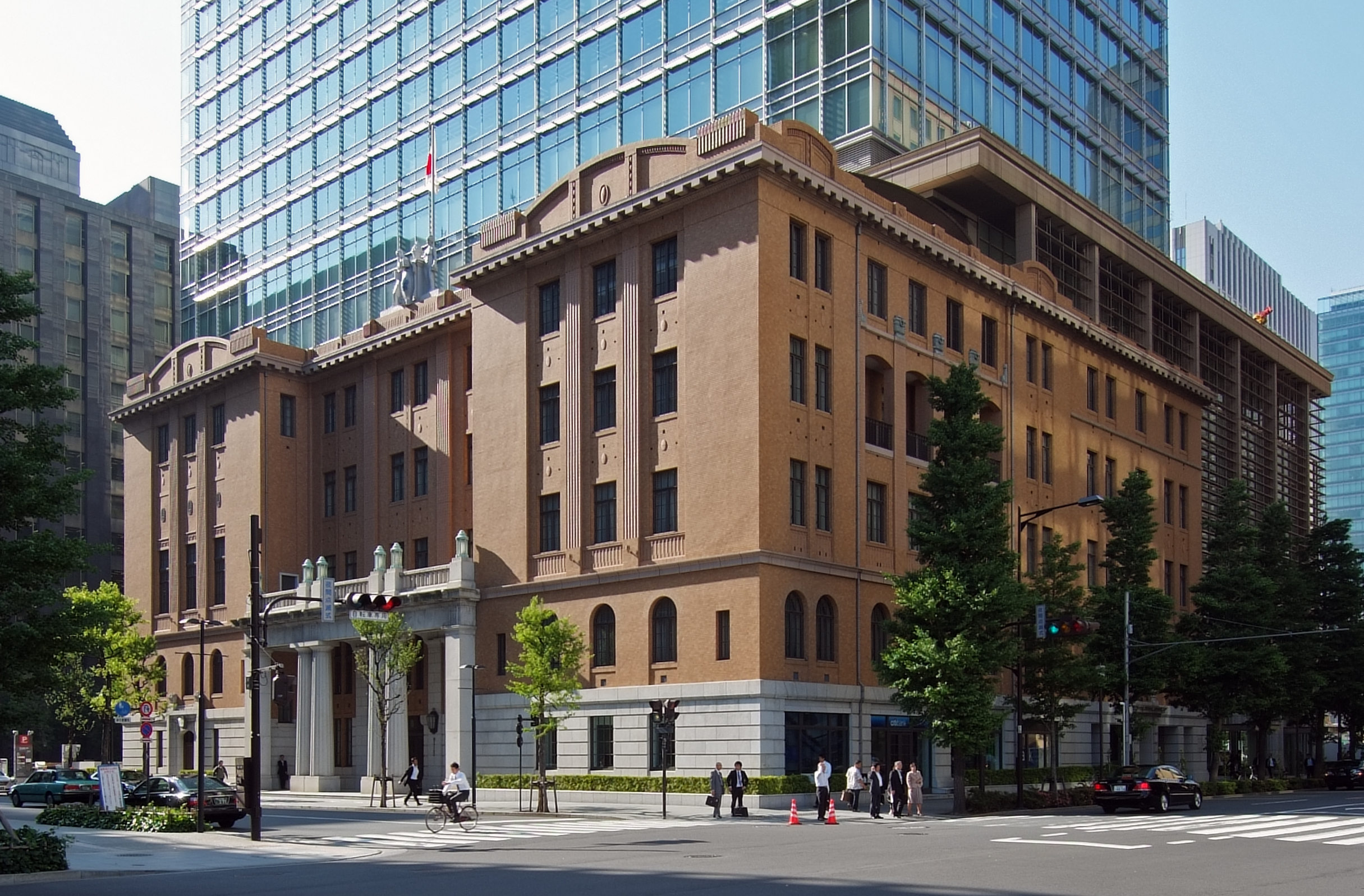 Industry club of Japan Bldg, chiyoda-ku Tokyo Japan.